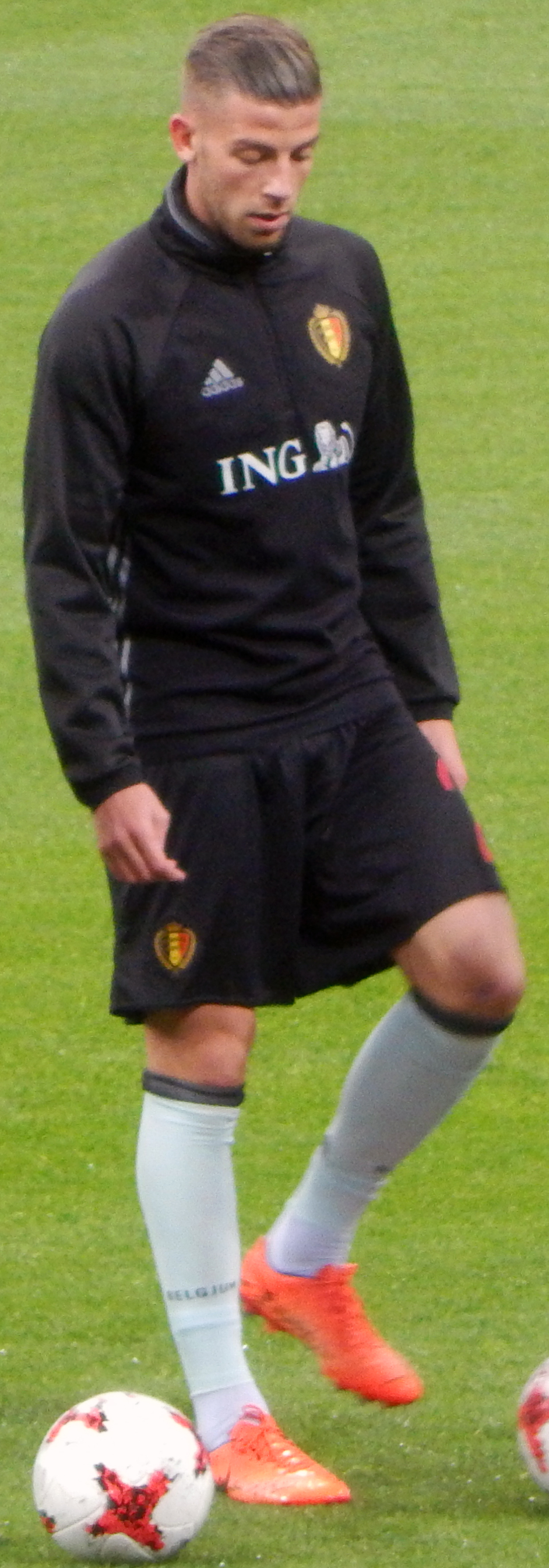 This photo was taken on March 28, 2017 during the exhibition game between Russia and Belgium. That game was held in Adler (City of Sochi) at the Fisht stadium.